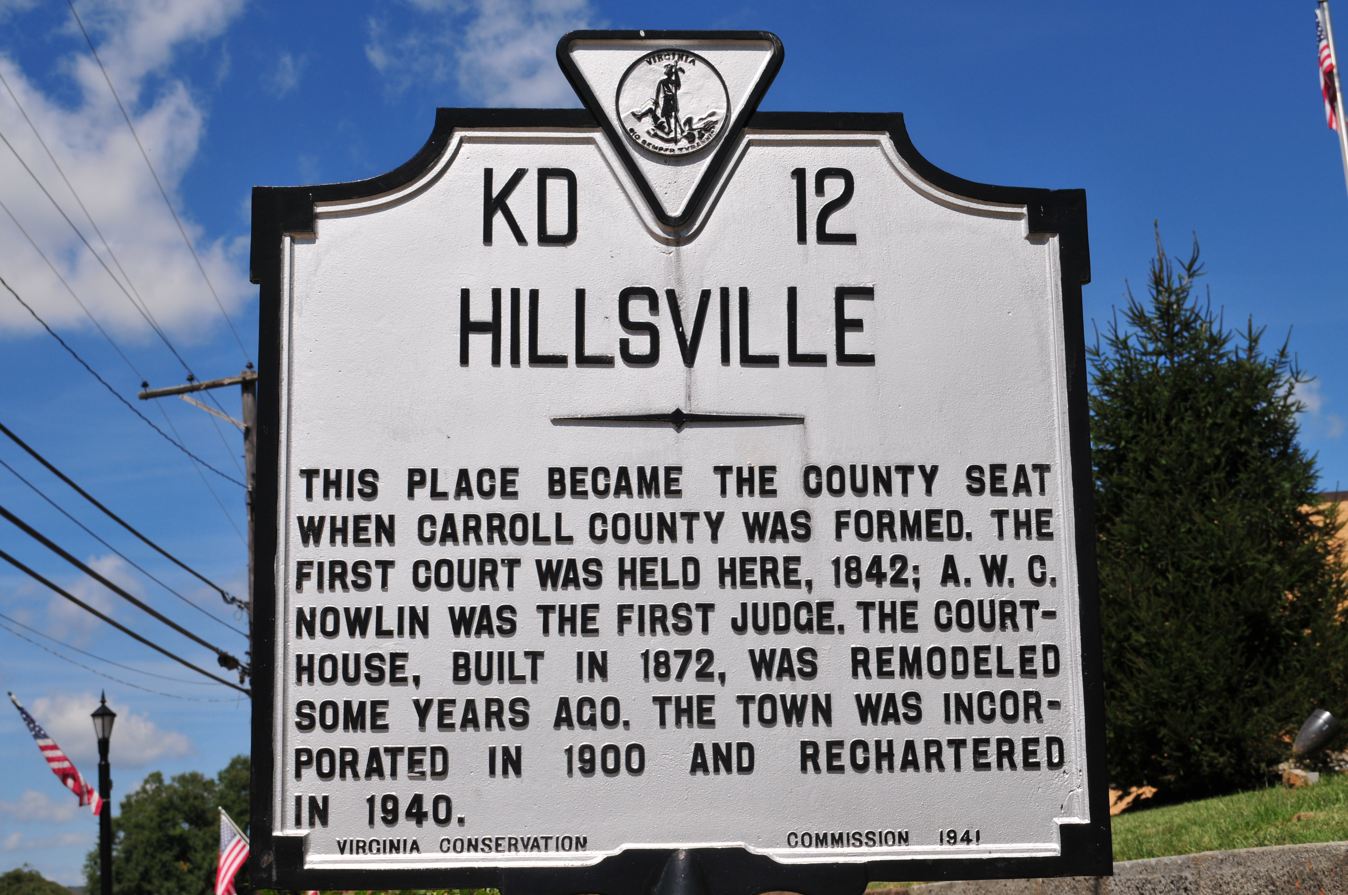 Carroll County Courthouse, 515 Main St. Hillsville